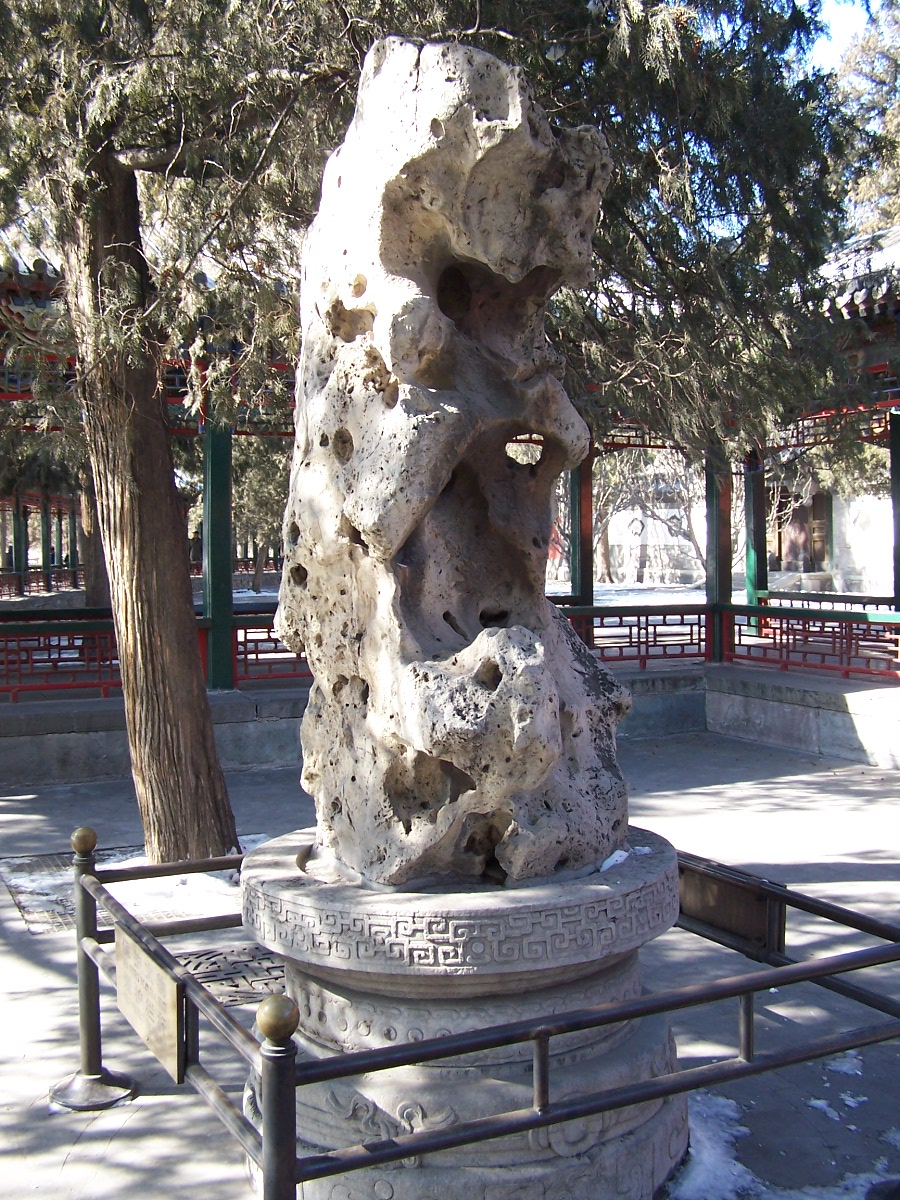 Summer Palace at Beijing, China